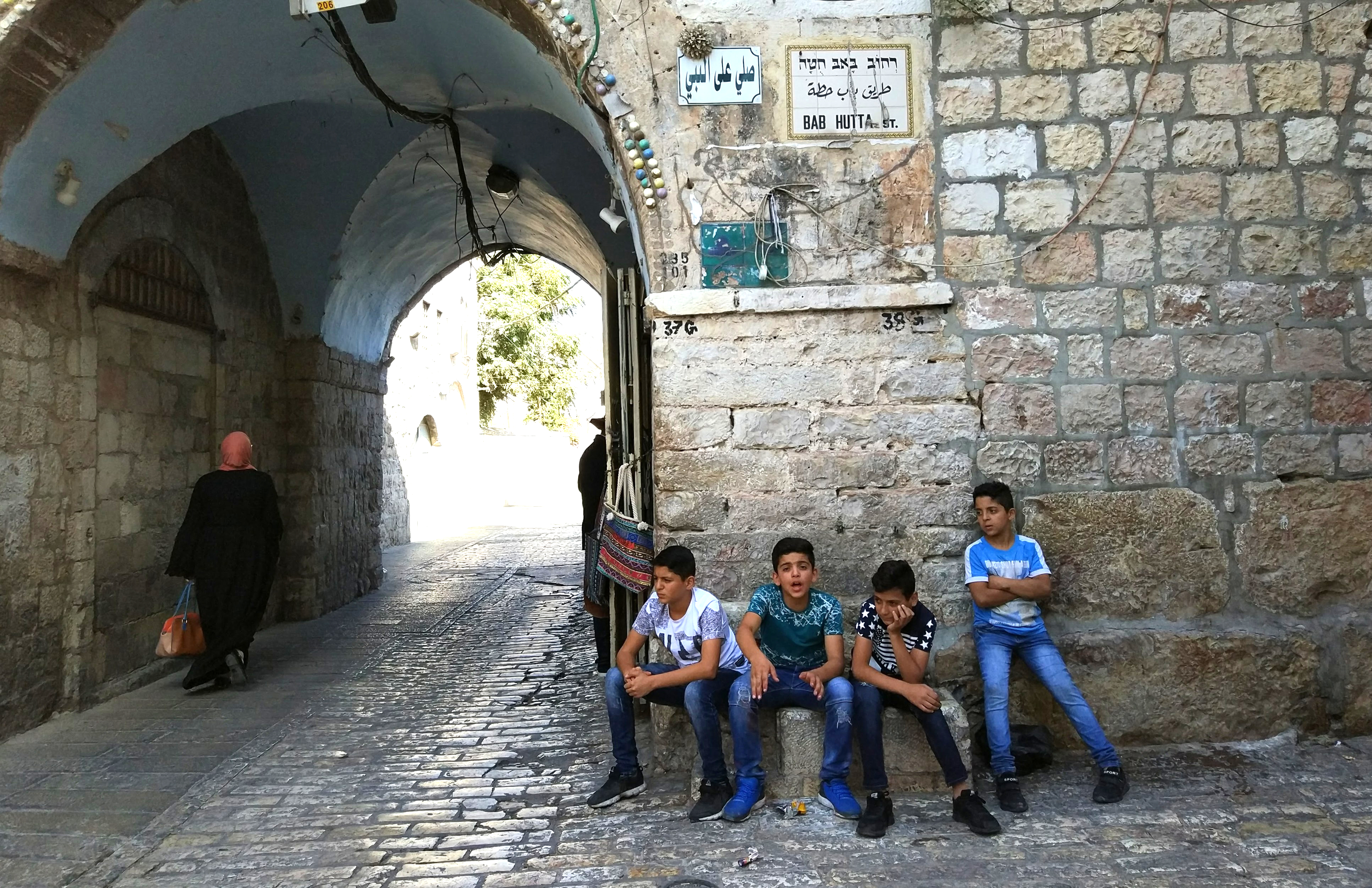 Old Jerusalem, Muslim Quarter, Bab Hutta Street - boys